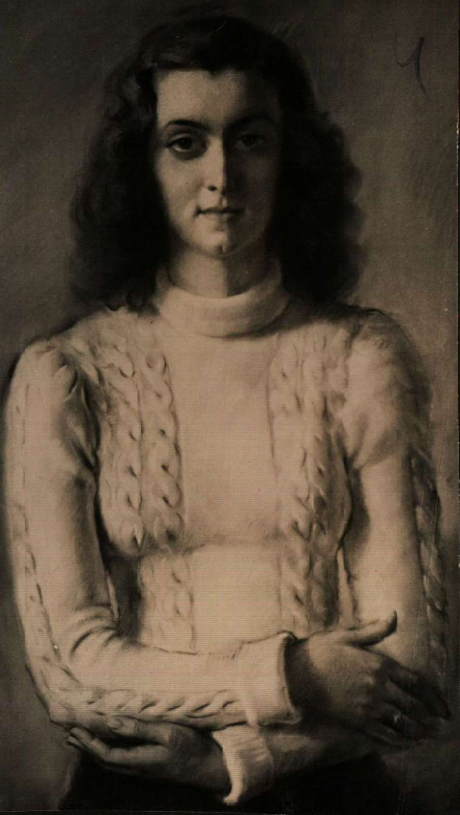 Radost Slivopolska